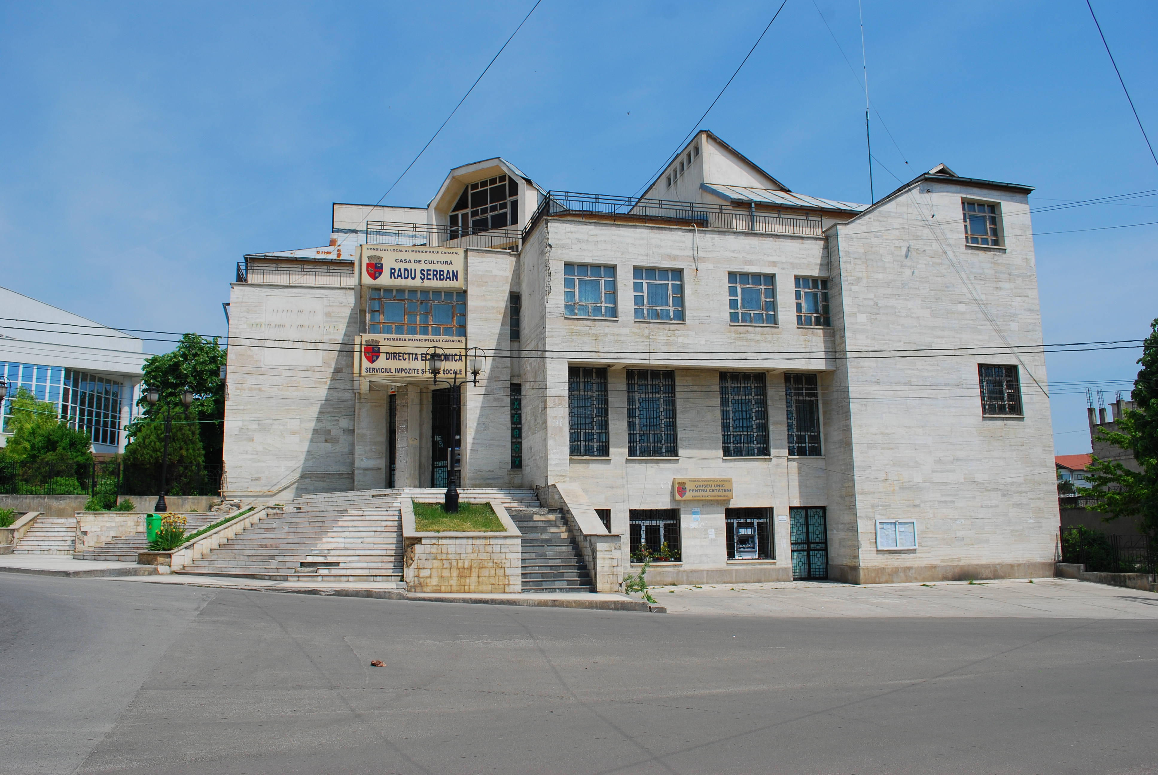 "Radu Şerban" Cultural center in Caracal, RomaniaRomână: Casa de cultură „Radu Şerban” din Caracal, România